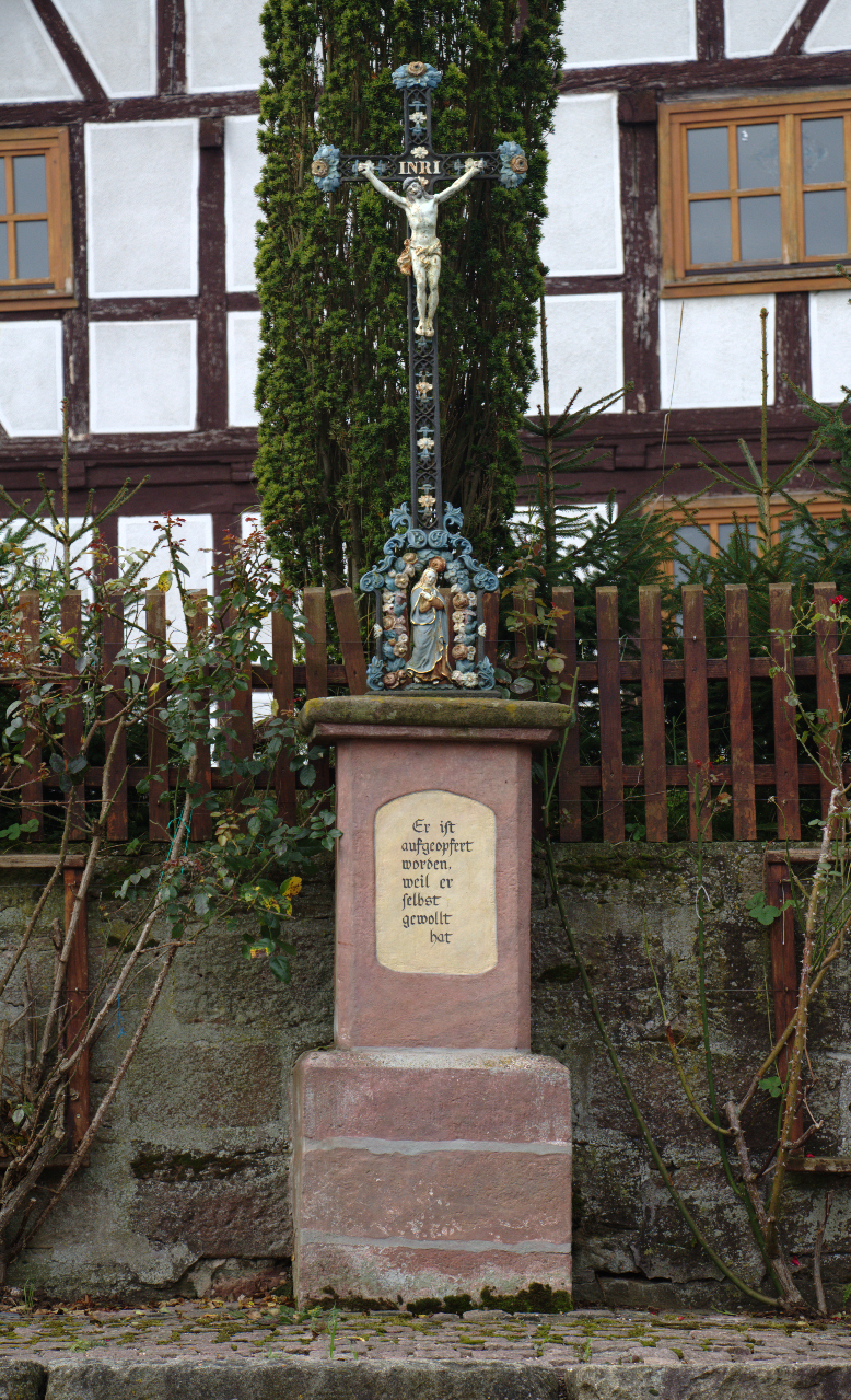 Wayside Cross in Oberrode, Fulda, Hessen, Germany